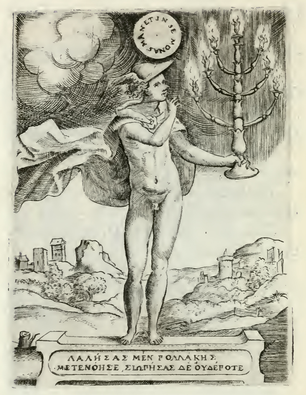 Emblem from Symbolicarum quaestionum by Achille Bocchi.